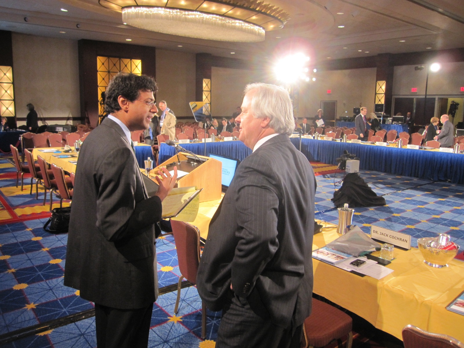 The National Governor's Association Winter meeting is focused on health care. Two national physician leaders, Jack Cochran, MD, from Kaiser Permanente, and Atul Gawande, MD, prepare to address the audience.